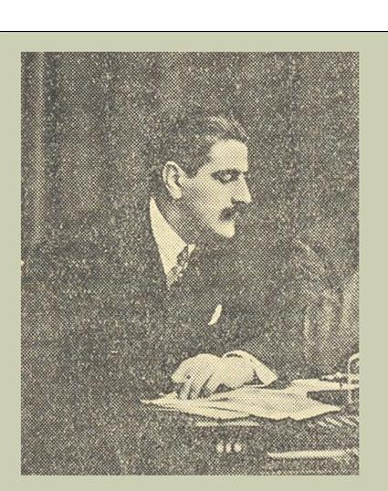 João Bastos, writer